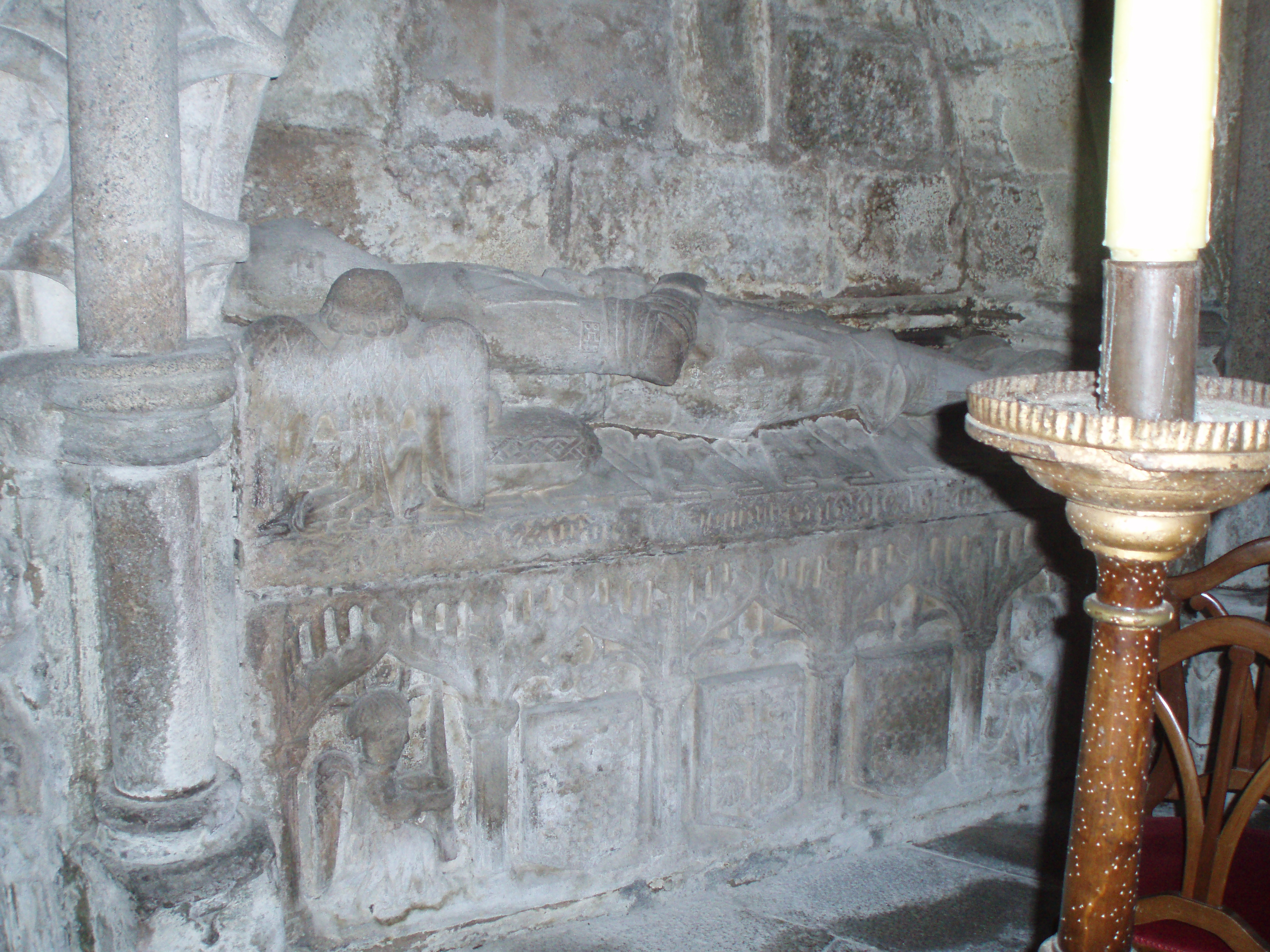 Church of San Peter of Lugo (Spain)